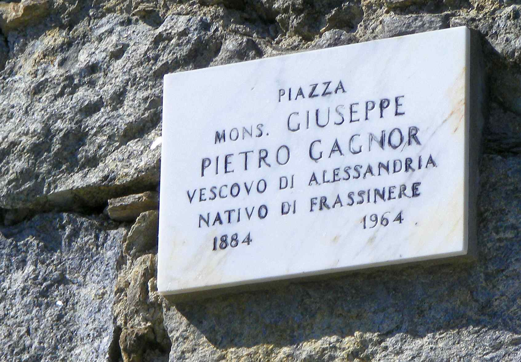 Frassinere (Condove, TO, Italy): bishop Gagnor memorial stone